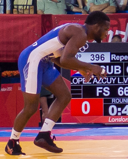 Haislan Garcia (blue) wrestling for Canada against Cuba in the 2012 Summer Olympics in London.